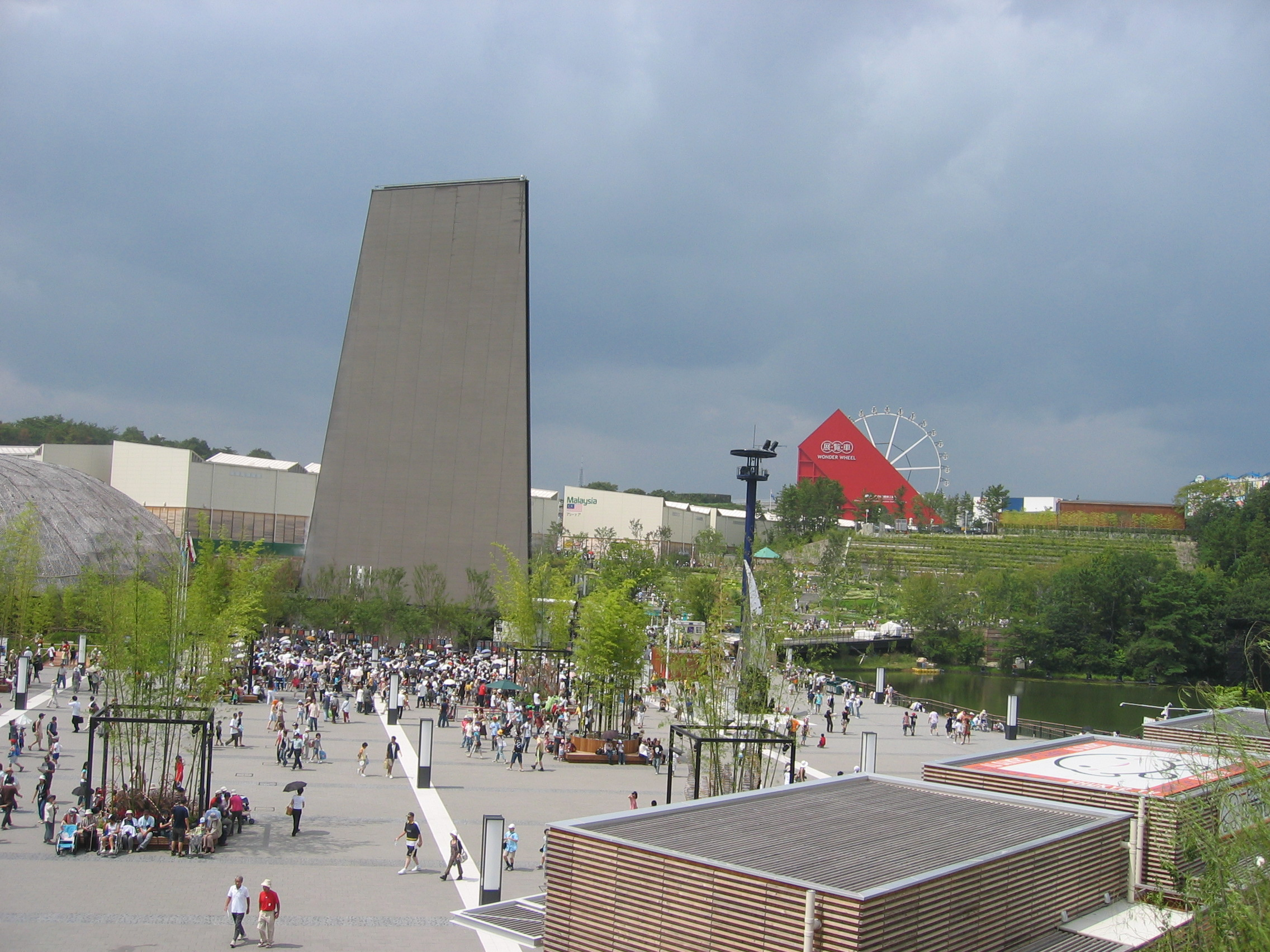 Photo taken by User:Jiang on August 15, 2005.